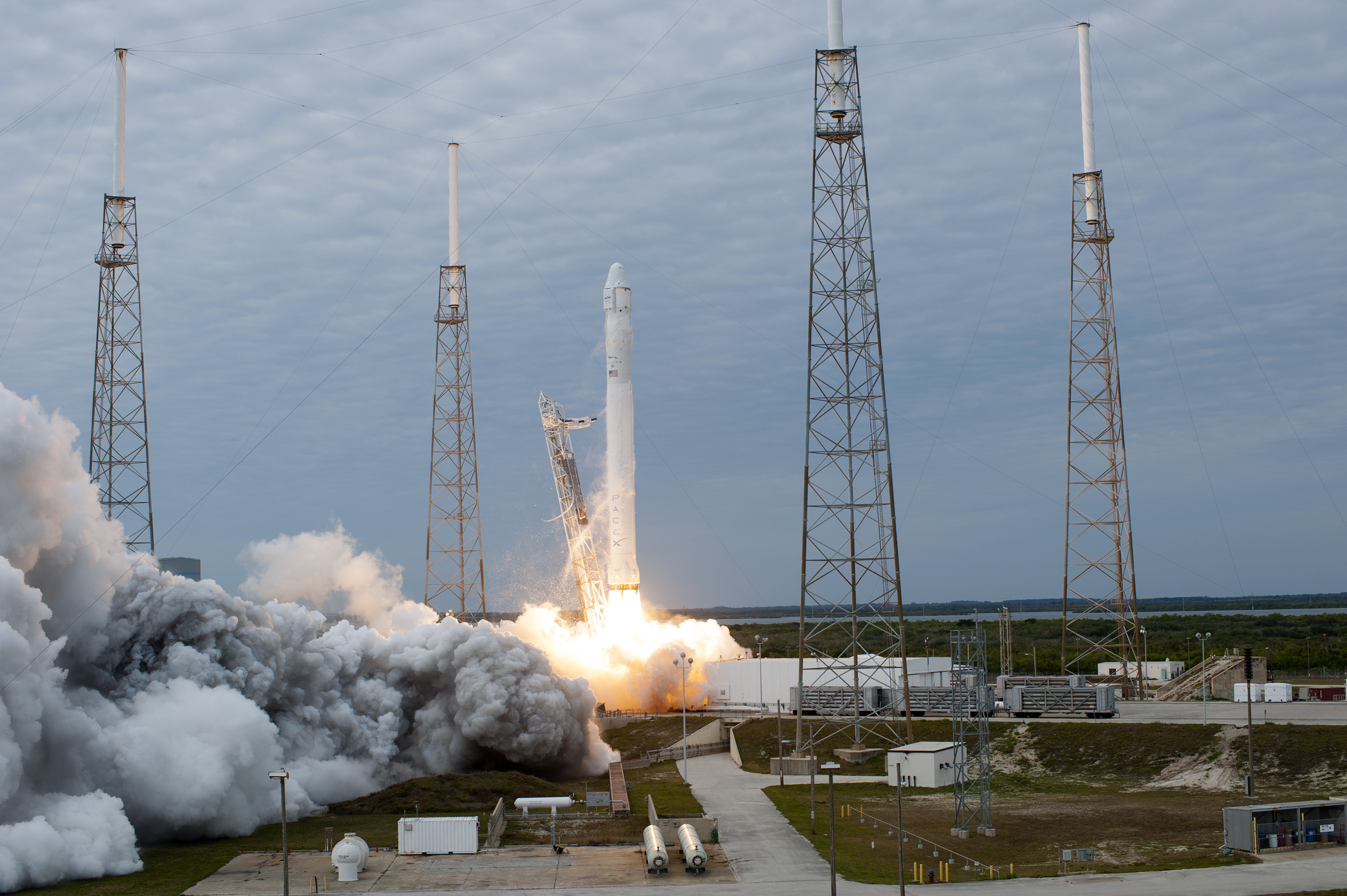 Space Exploration Technologies' Falcon 9 rocket lifts off Space Launch Complex 40 on Cape Canaveral Air Force Station in Florida at 10:10 a.m. EST on Friday, March 1, 2013, carrying a Dragon capsule filled with cargo. The SpaceX Dragon capsule is making its third trip to the International Space Station, following a demonstration flight in May 2012 and the first resupply mission in October 2012. The SpaceX-2 mission is the second of 12 SpaceX flights contracted by NASA to resupply the orbiting laboratory.